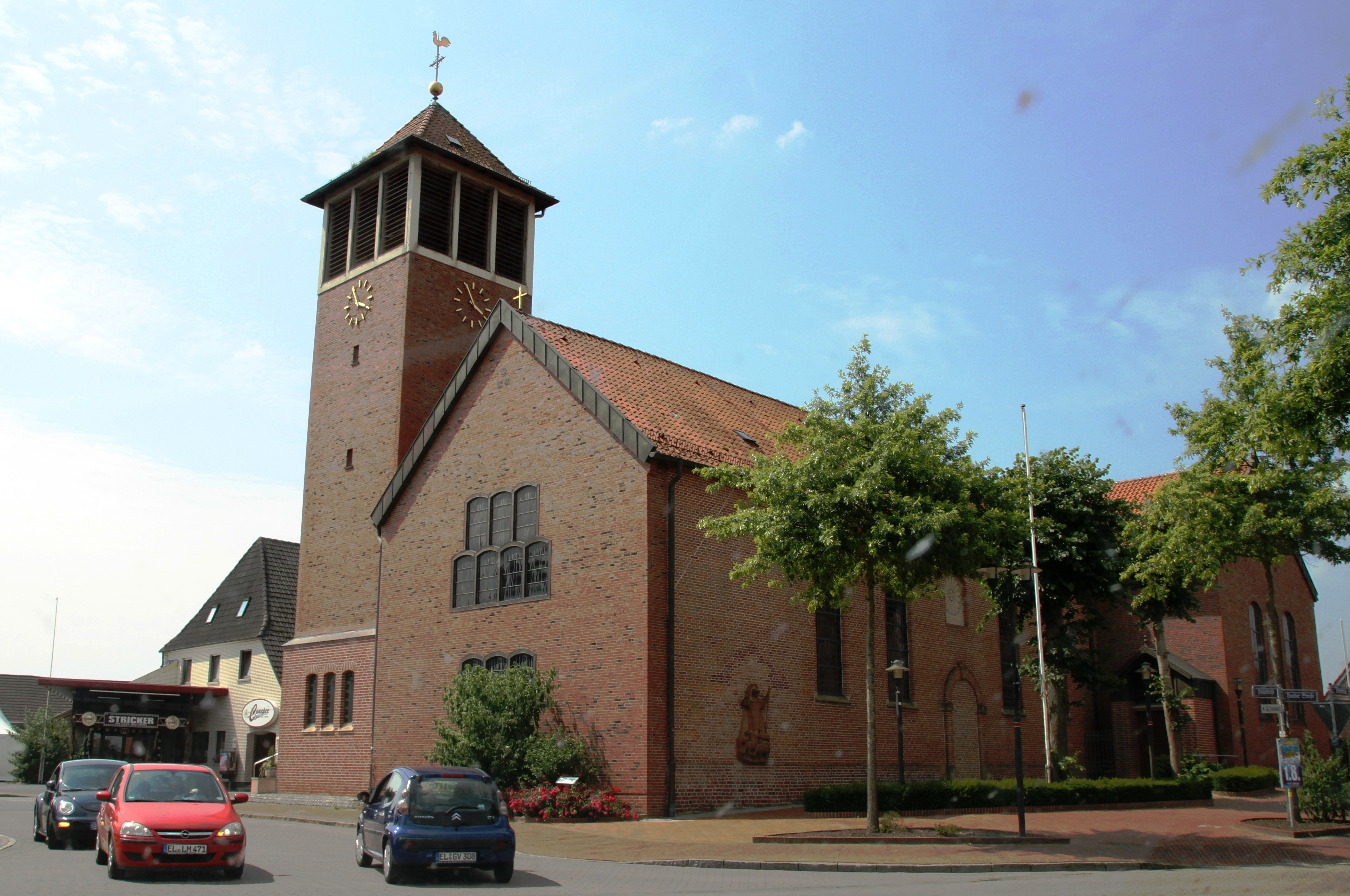 The central church of Dörpen, northwest Germany, close to the Netherlands border.